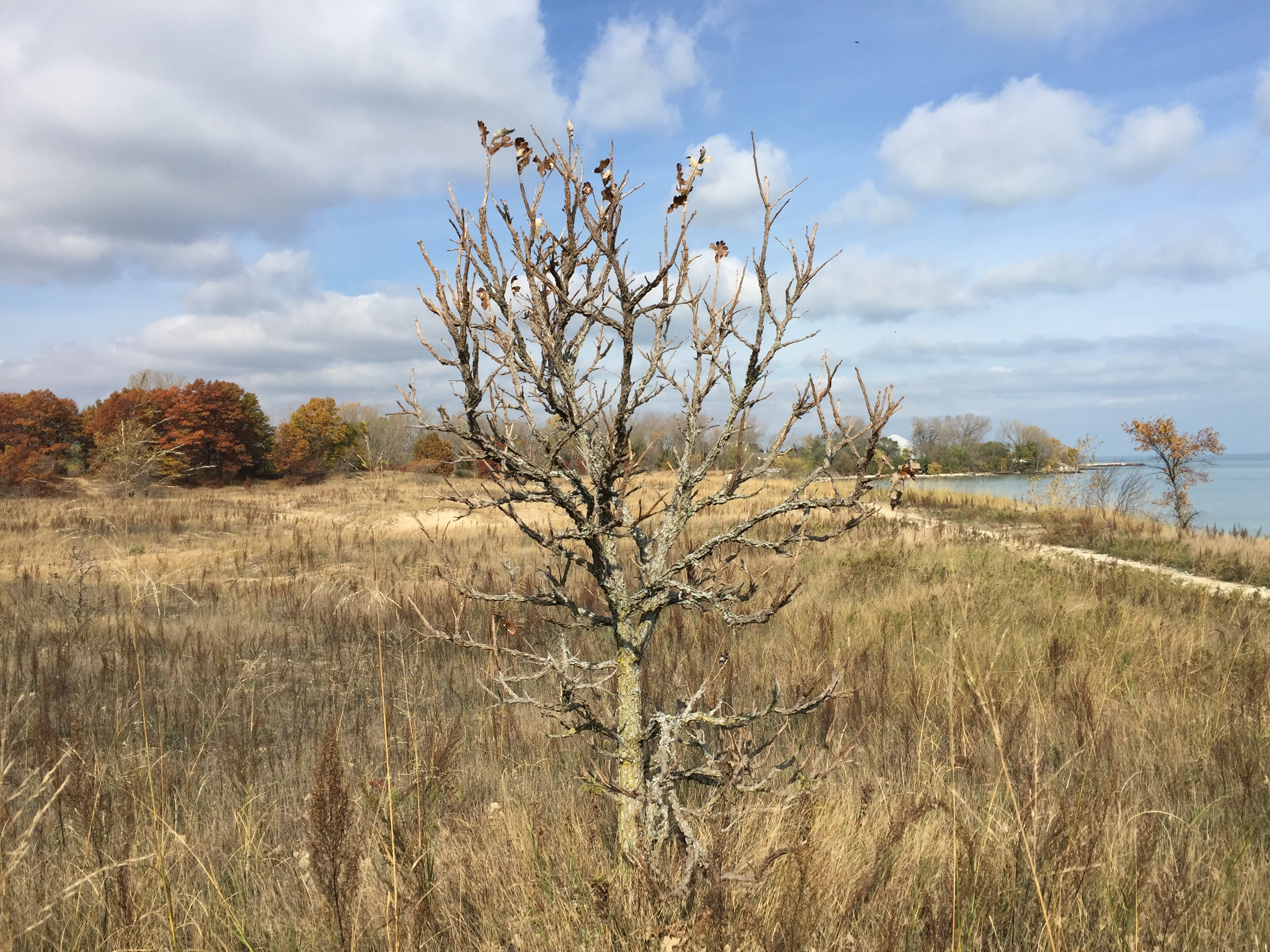 The dunes looking north with Lake Michigan to the east.